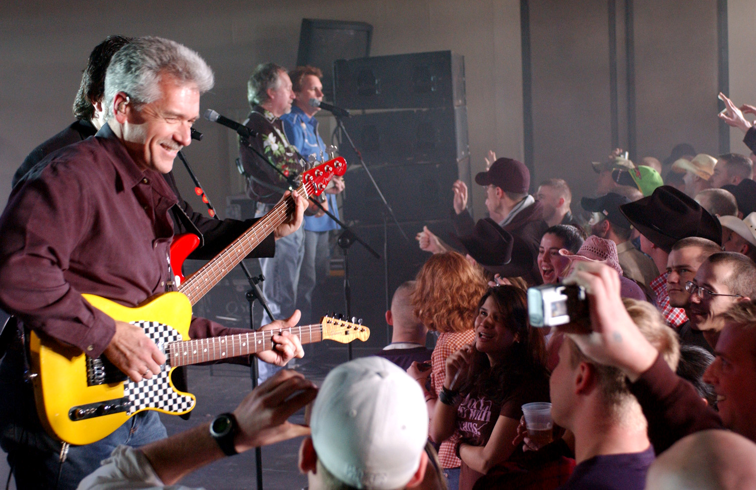 Diamond Rio play for 8th Fighter Wing Airmen. Diamond Rio made their first stop here as they sweep through the Pacific playing for servicemembers. The tour is sponsored by the United Services Organization.